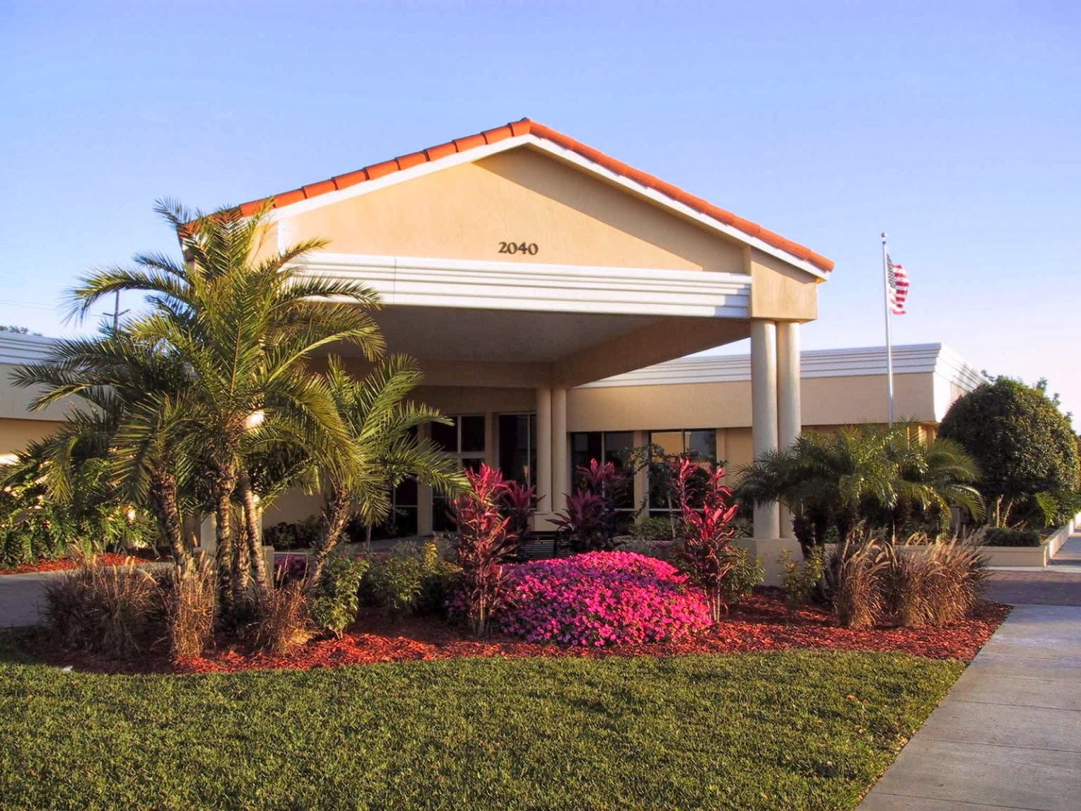 The main entrance into the Roskamp Institute headquarters in Sarasota, Florida.